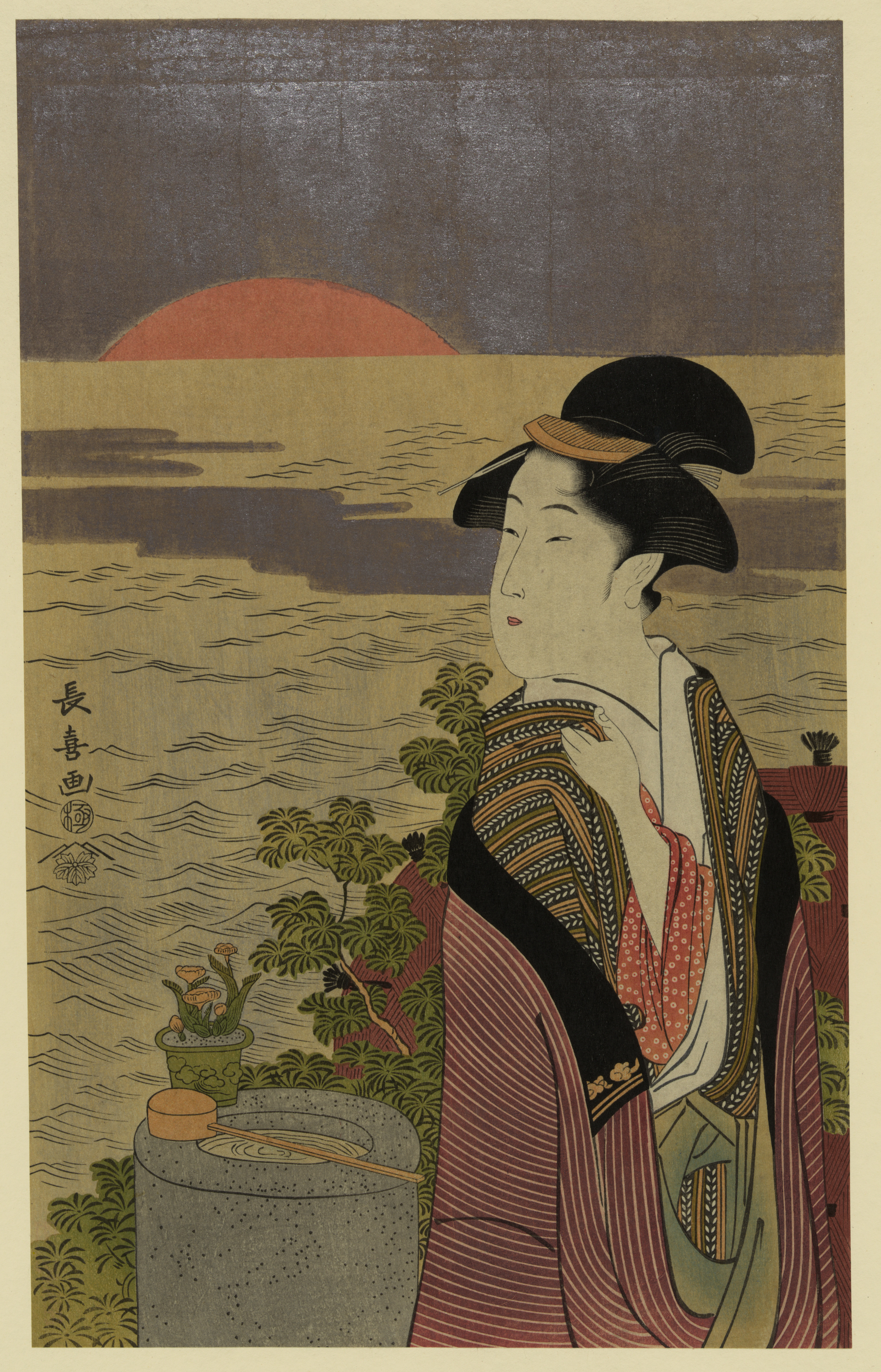 Japanese ukiyo-e full-colour woodblock print